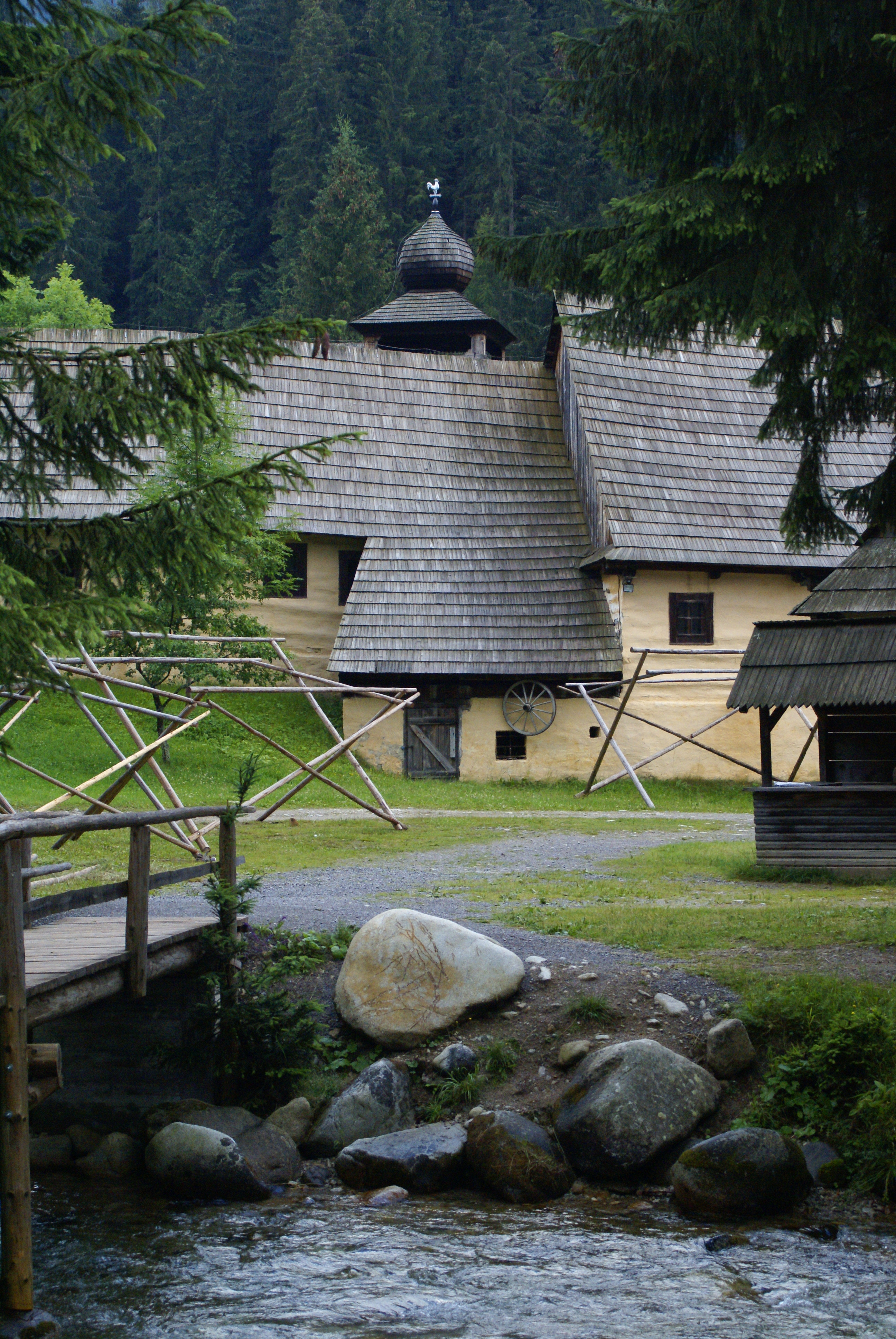 Open air museum of typical slovakian old Orava village, Zuberec, West Tatras, Slovak Republic